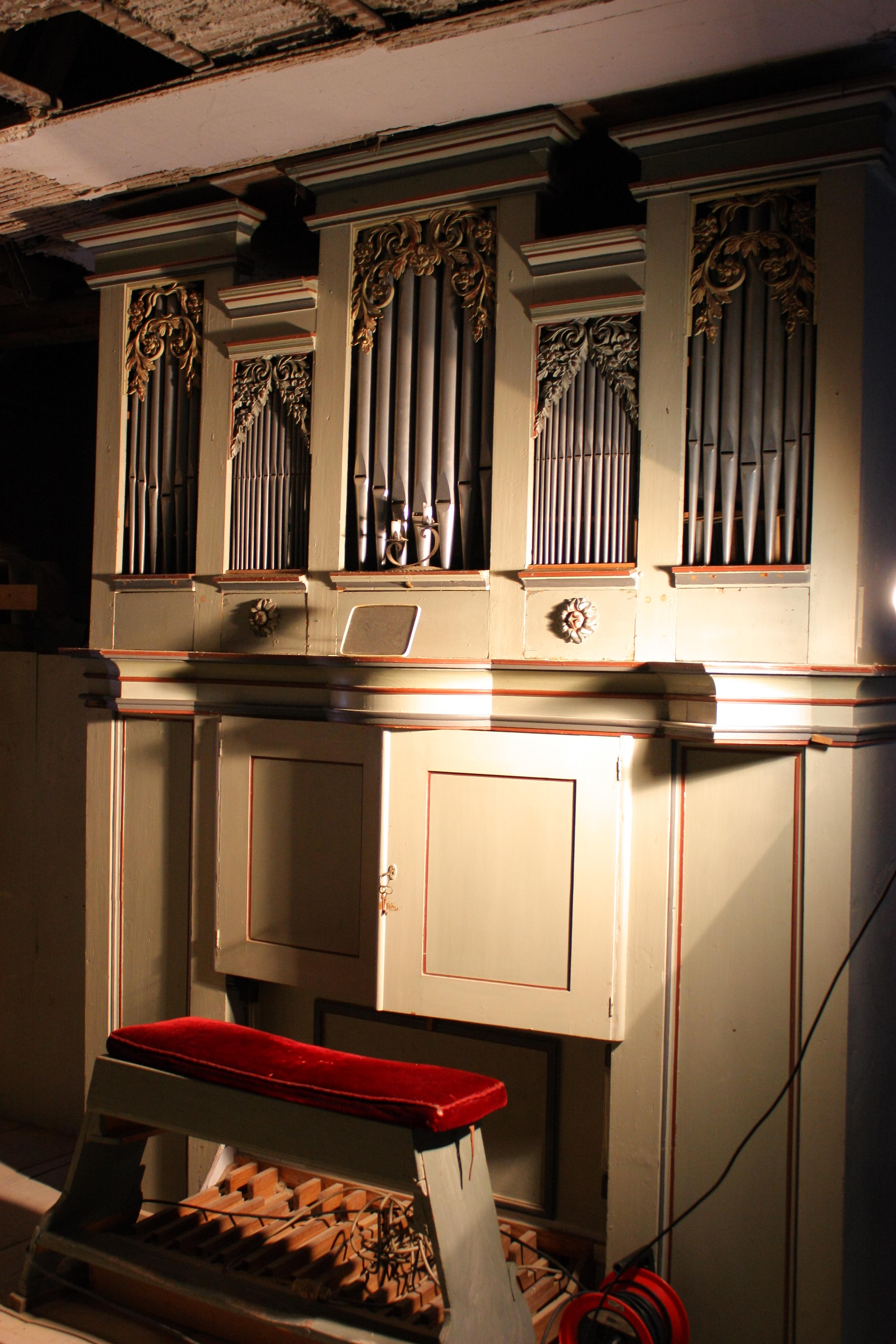 Pipe Organ at the church in Heteborn at Saxony-Anhalt in Germany